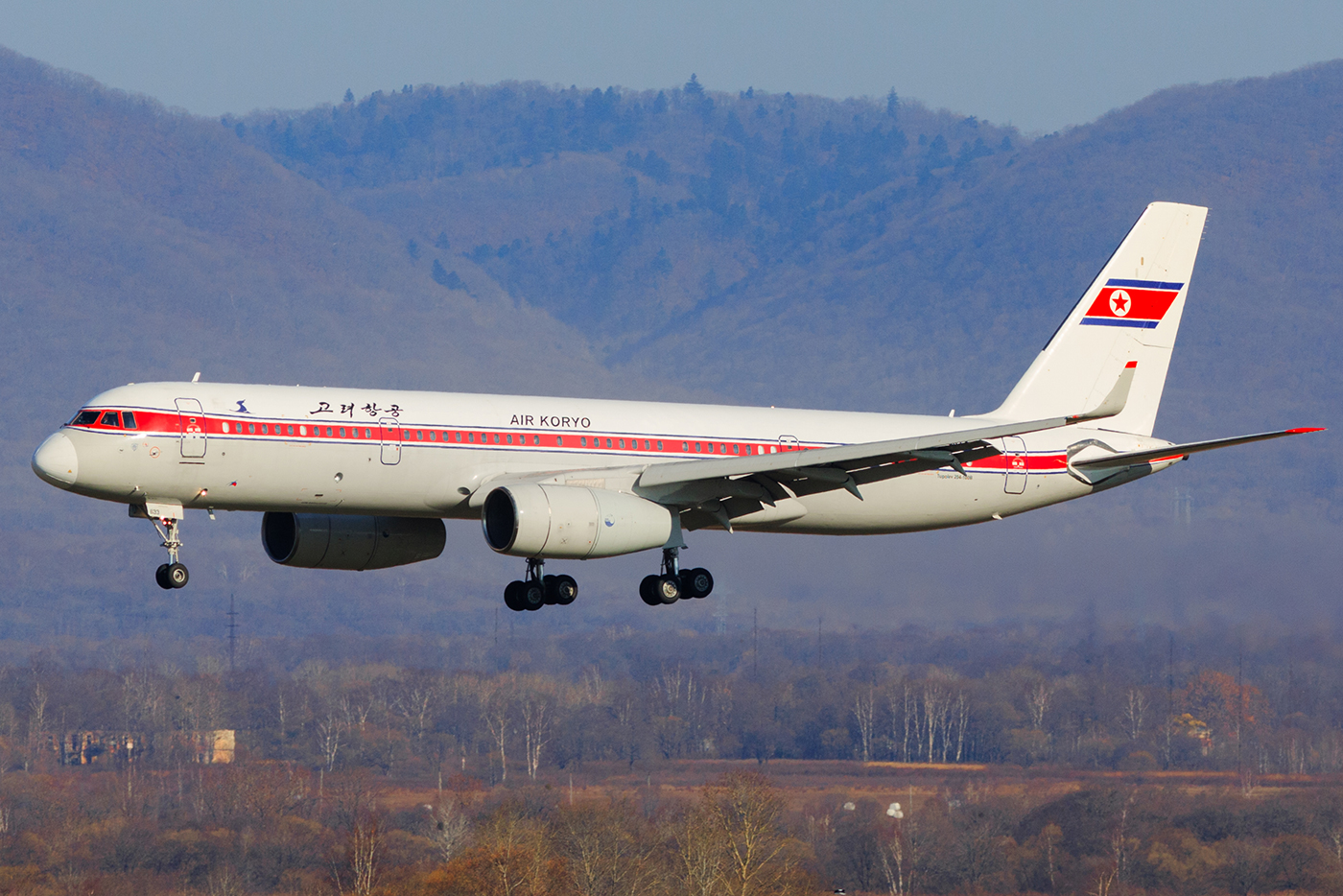 Tupolev Tu-204-300 of Air Koryo at Vladivostok Airport